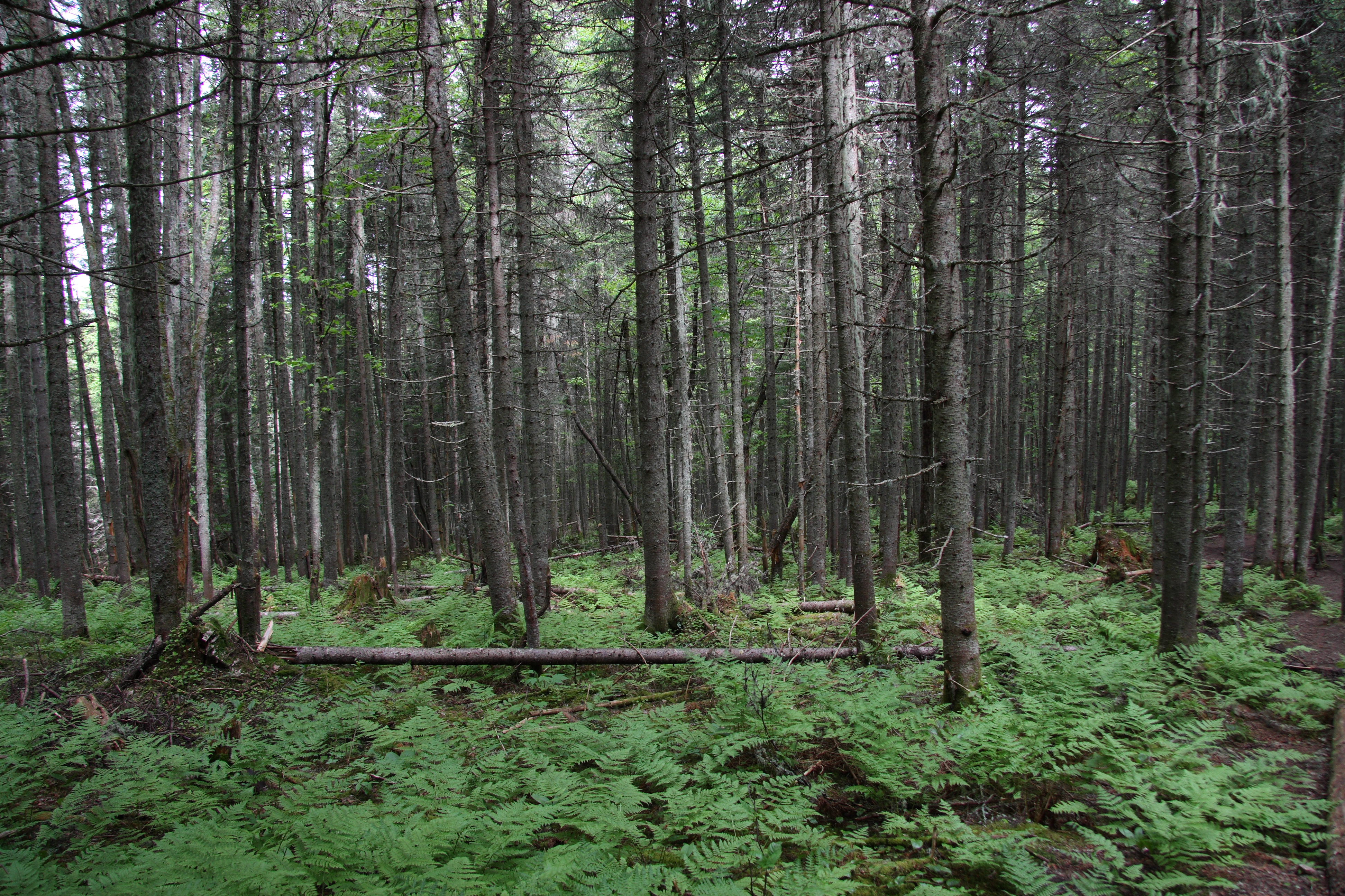 Balsam fir forest understory, Jacques-Cartier National Park, Quebec, Canada.